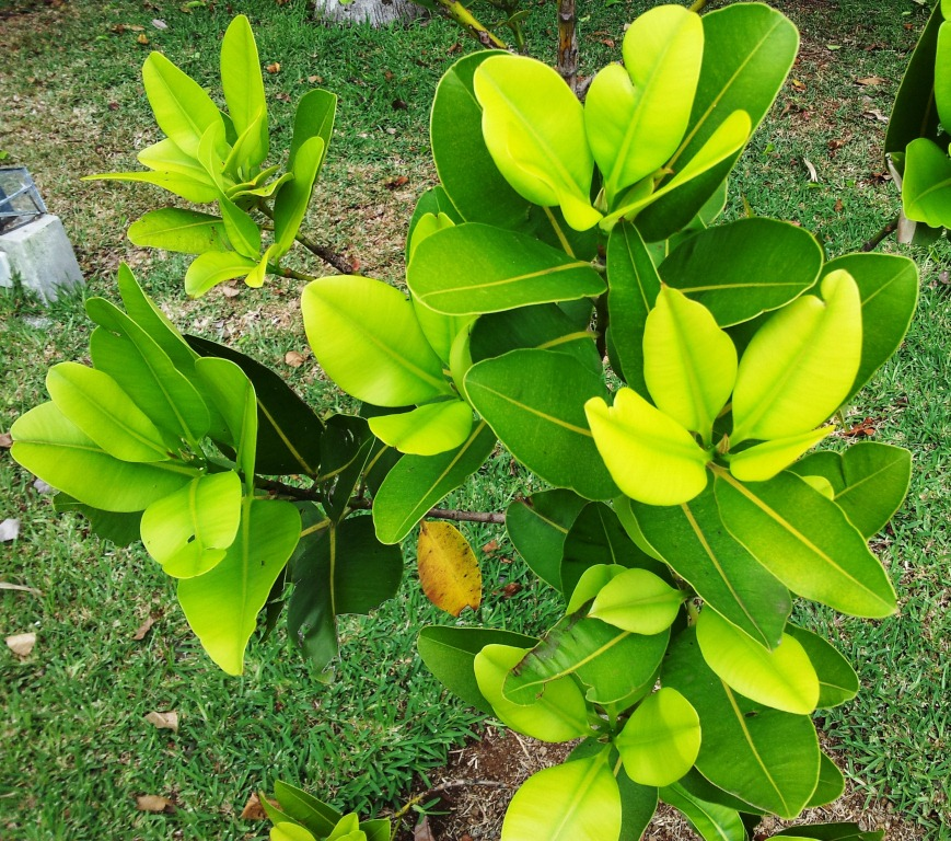 Calophyllum tacamahaca - endemic Takamaka tree - Mauritius